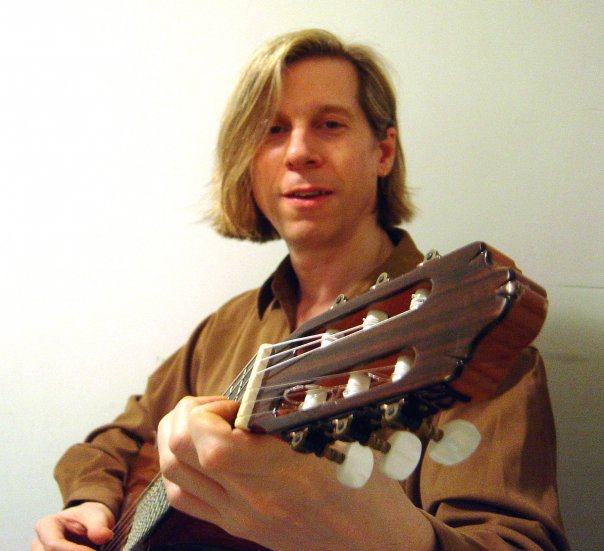 Maryland musician Woody Lissauer playing a classical guitar.